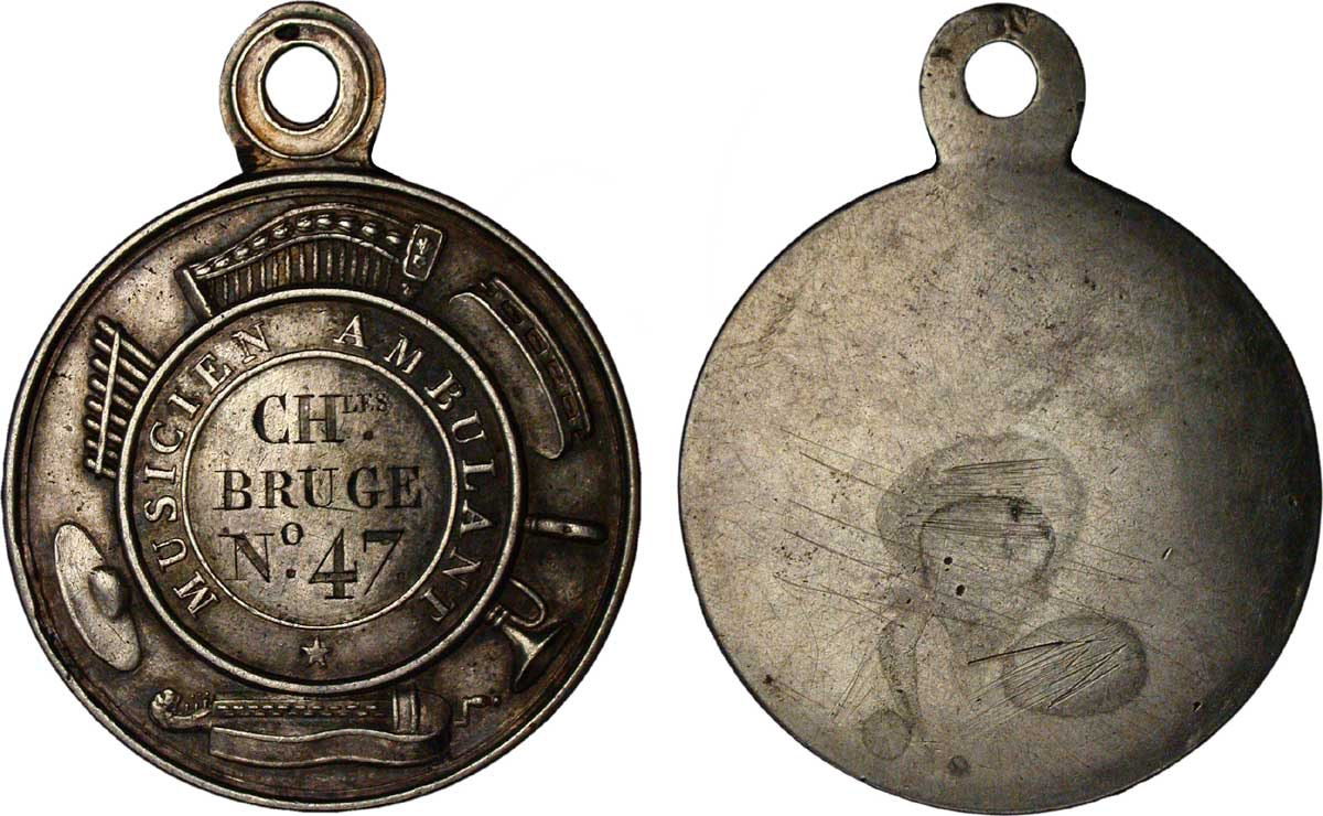 Médaille à bélière pour servir de laisser-passer à un musicien ambulant au nom de Charles Bruge